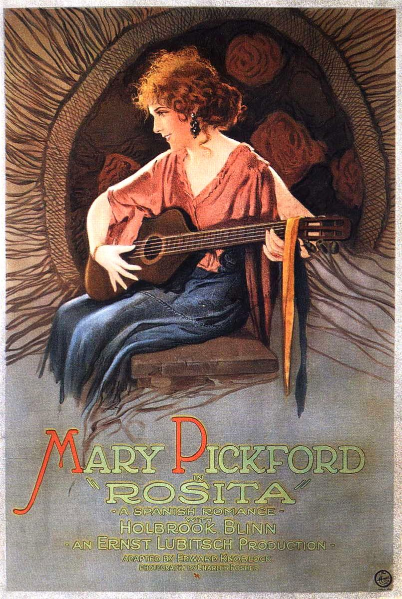 Poster for the 1923 film Rosita. A larger copy of the poster isn't able to be read for possible copyright marks due to damage at the bottom edge. Copyright renewal searches were done in both film and artwork for the years 1950 and 1951. There were listings for this title in film; a listing for the name "Rosita" in artwork was not a renewal, but a 1950 registration and was not film-related. There's no evidence of continuing copyright for the film or materials.